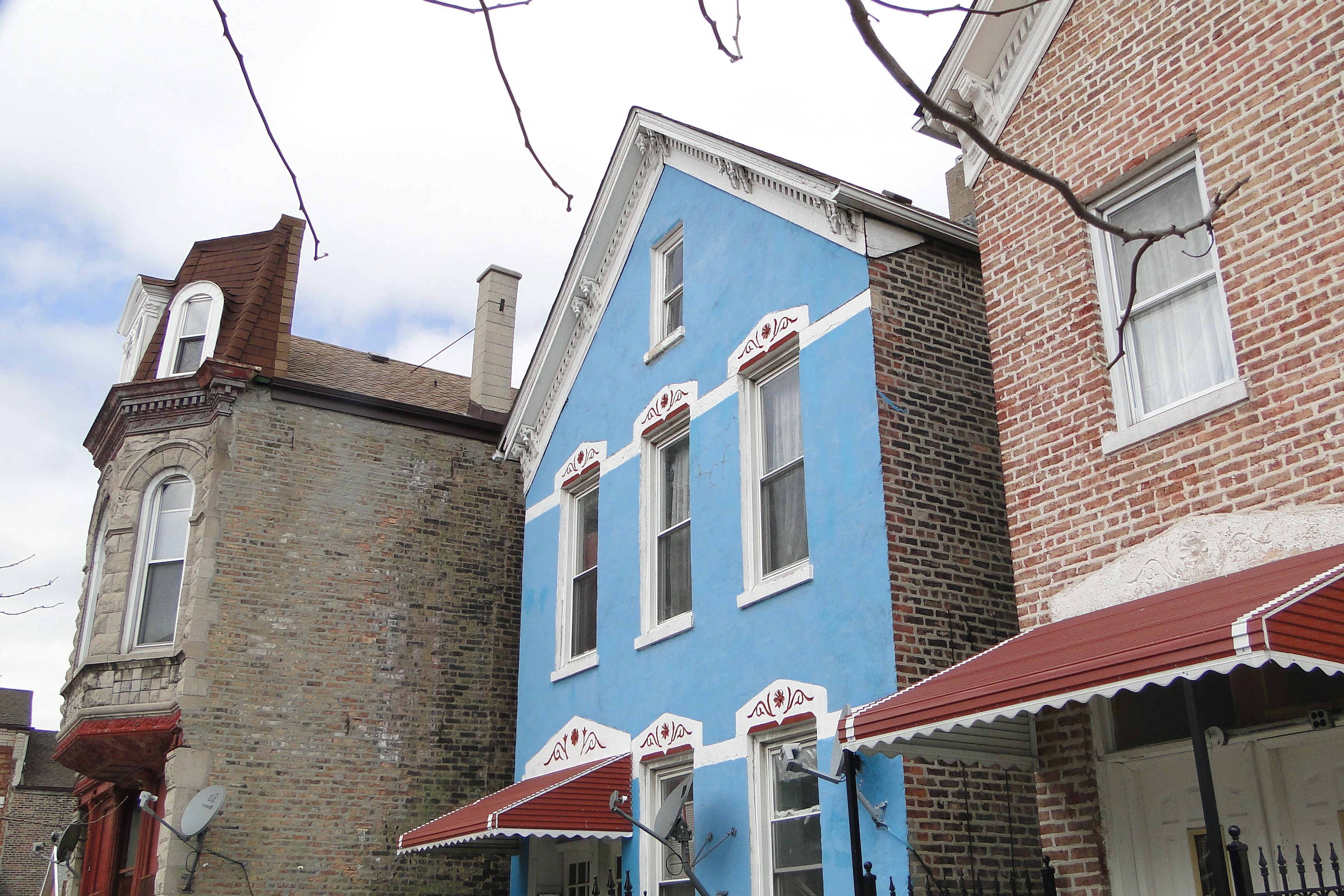 Architecture in Pilsen Neighborhood - Chicago - Illinois - USA - 03